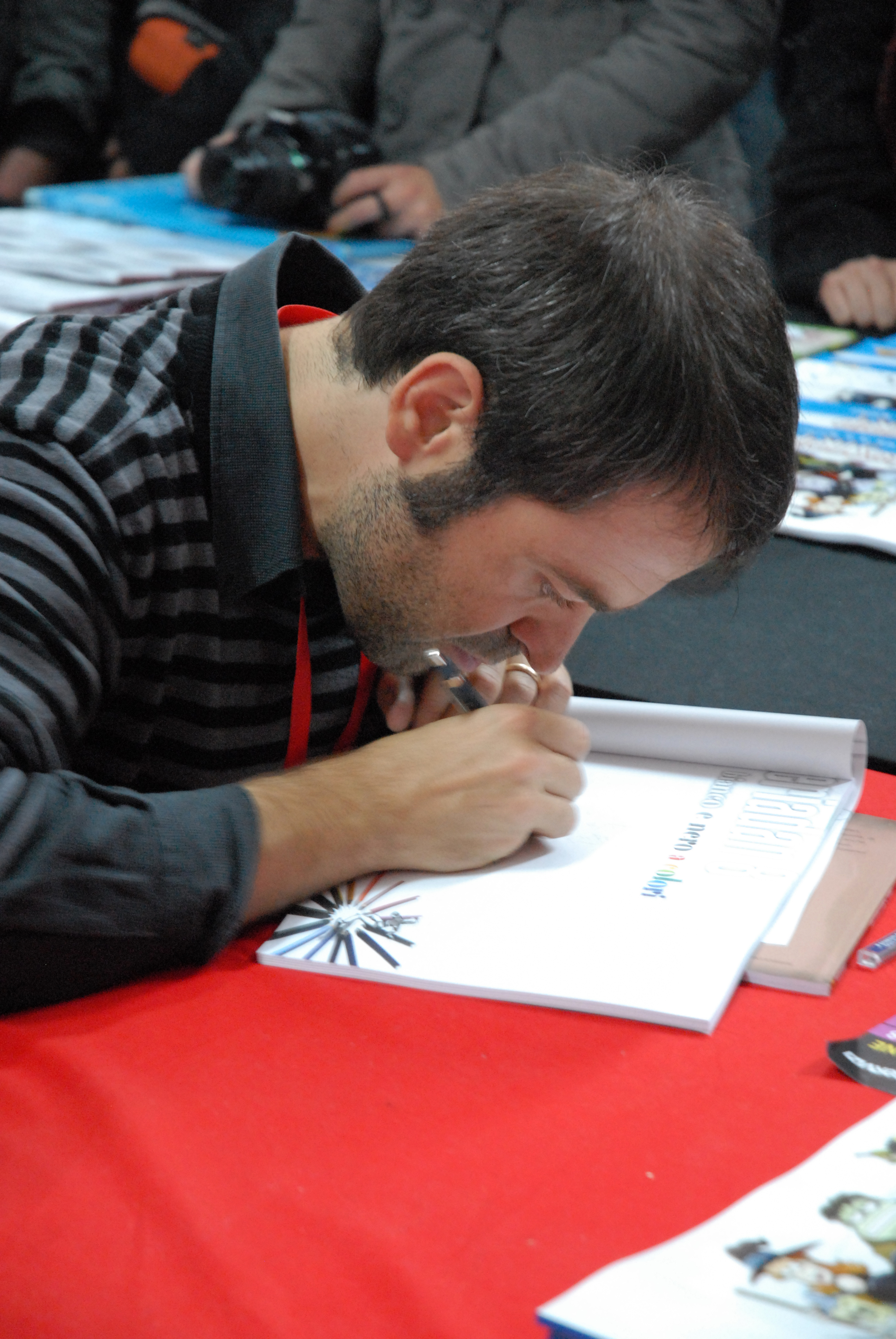 Eriadan Photo taken during Lucca Comics&Games 2010